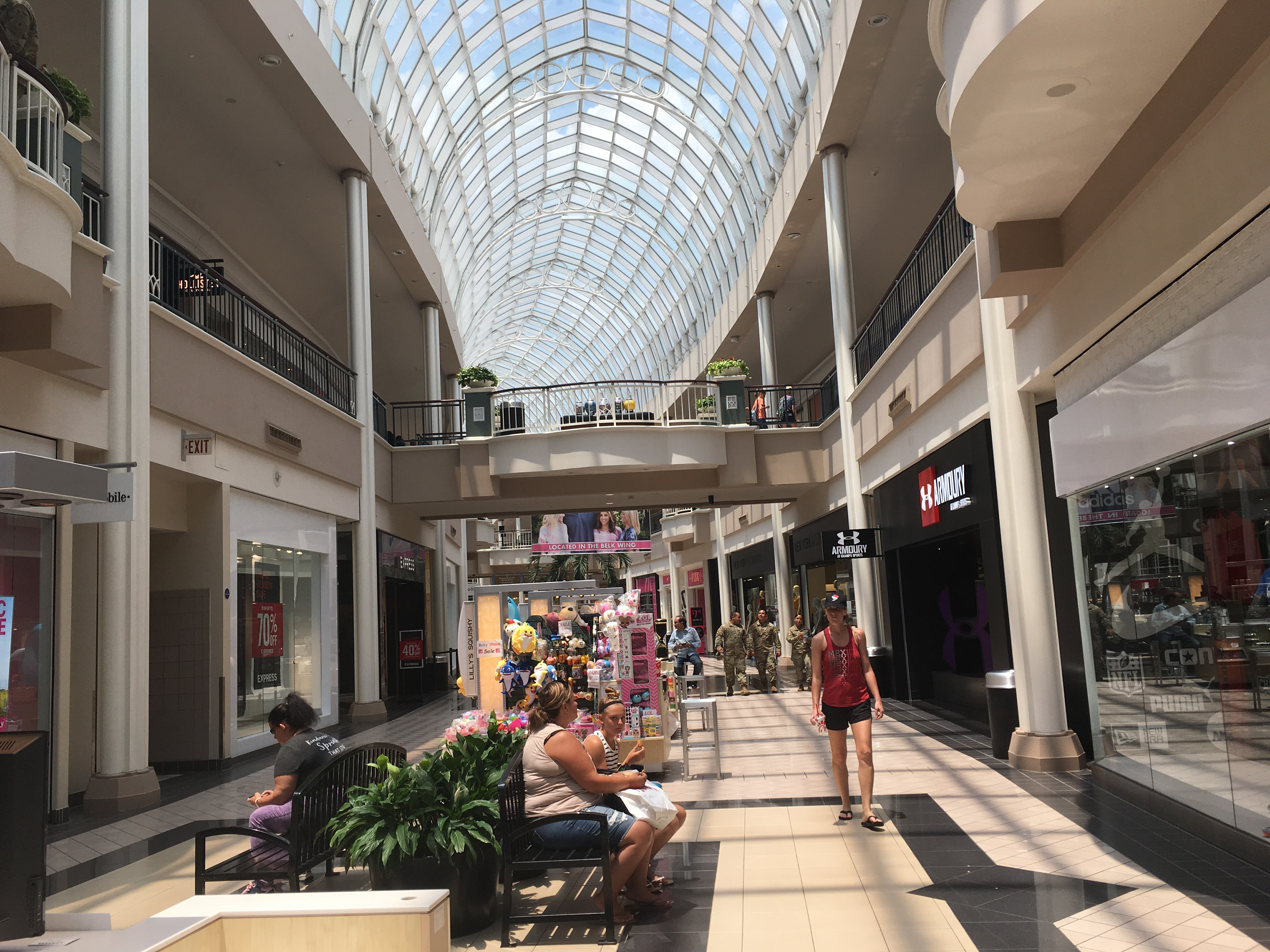 A view of the Carolina Place Mall in Pineville, North Carolina looking from Dillard’s on the first floor